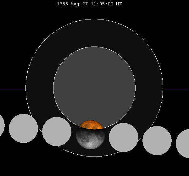 August 1988 lunar eclipse chart of moon's penumbral lunar eclipse path through the earth's shadow. thumb